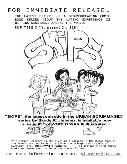 Press release for Skips, a comic book story published in world war 3 illustrated. It was created by the author Sandy Jimenez, and given to me and all the public for use. This press release is a matter of public record, it was faxed, emailed, wheat pasted all over the Eastern United States, Europe and Japan.